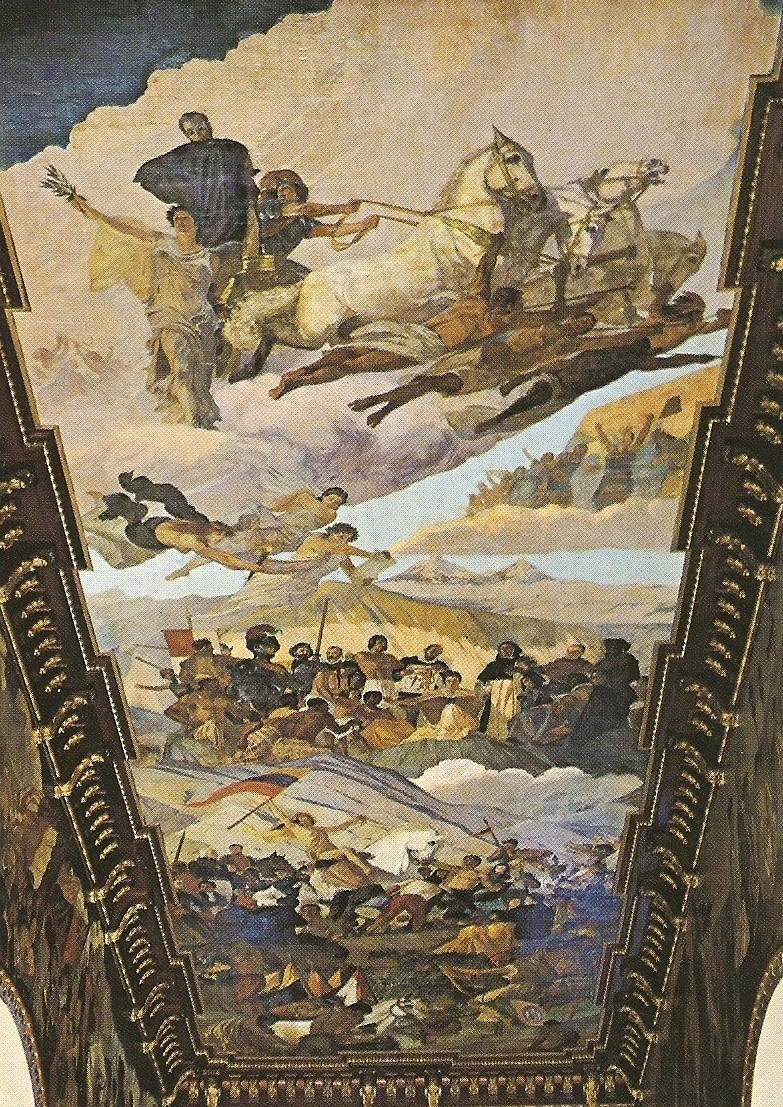 Bolívar's Apotheosis by Tito Salas. Author: Self Made. Year: 1970s.